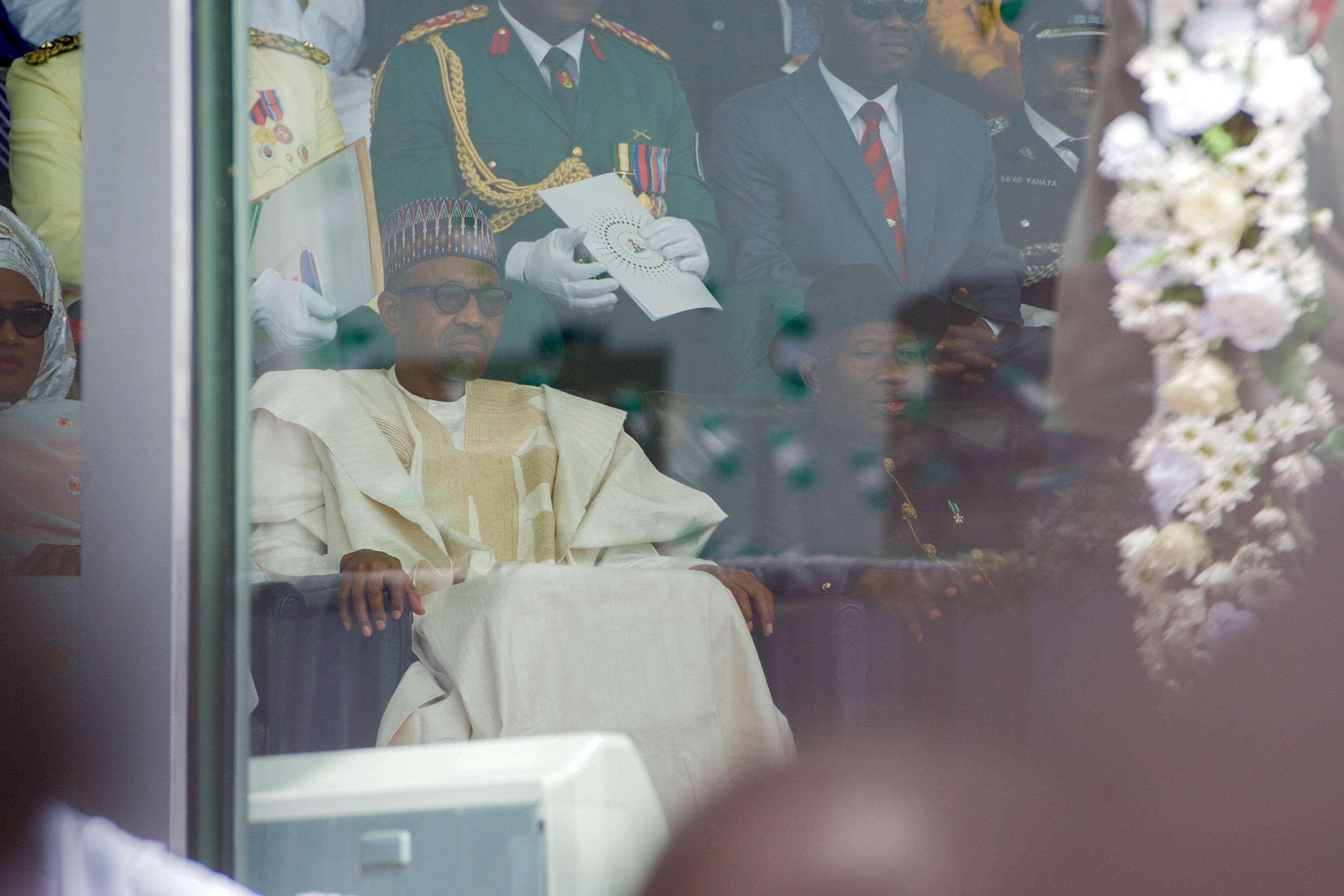 Nigerian President Goodluck Jonathan, in hat, sits with President-elect Muhammadu Buhari amid his inauguration ceremony - attended by U.S. Secretary of State John Kerry and other members of a delegation representing President Obama - at Eagle Square in Abuja, Nigeria, on May 29, 2015. [State Department photo/ Public Domain]